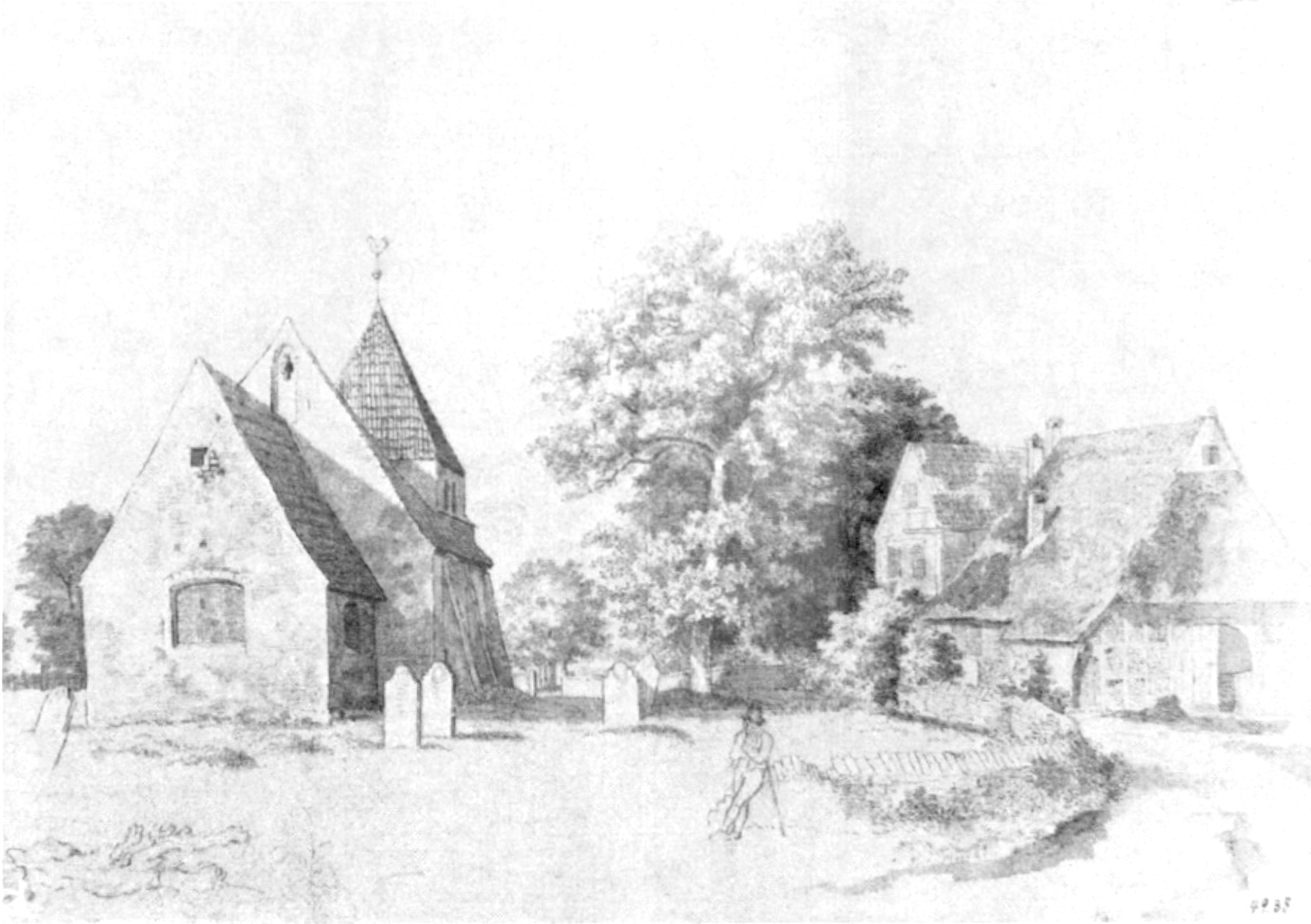 St. Georges Church in the Bremish village of Huchting